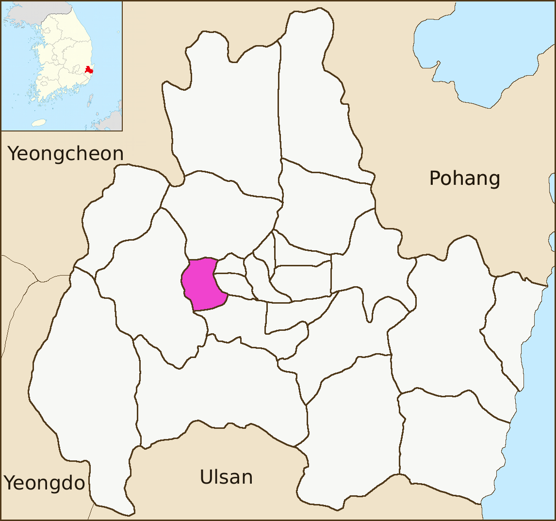 Map of Seondo-dong, an administrative division of Gyeongju, South Korea. Created by User:Visviva, redrawn by Kokiri